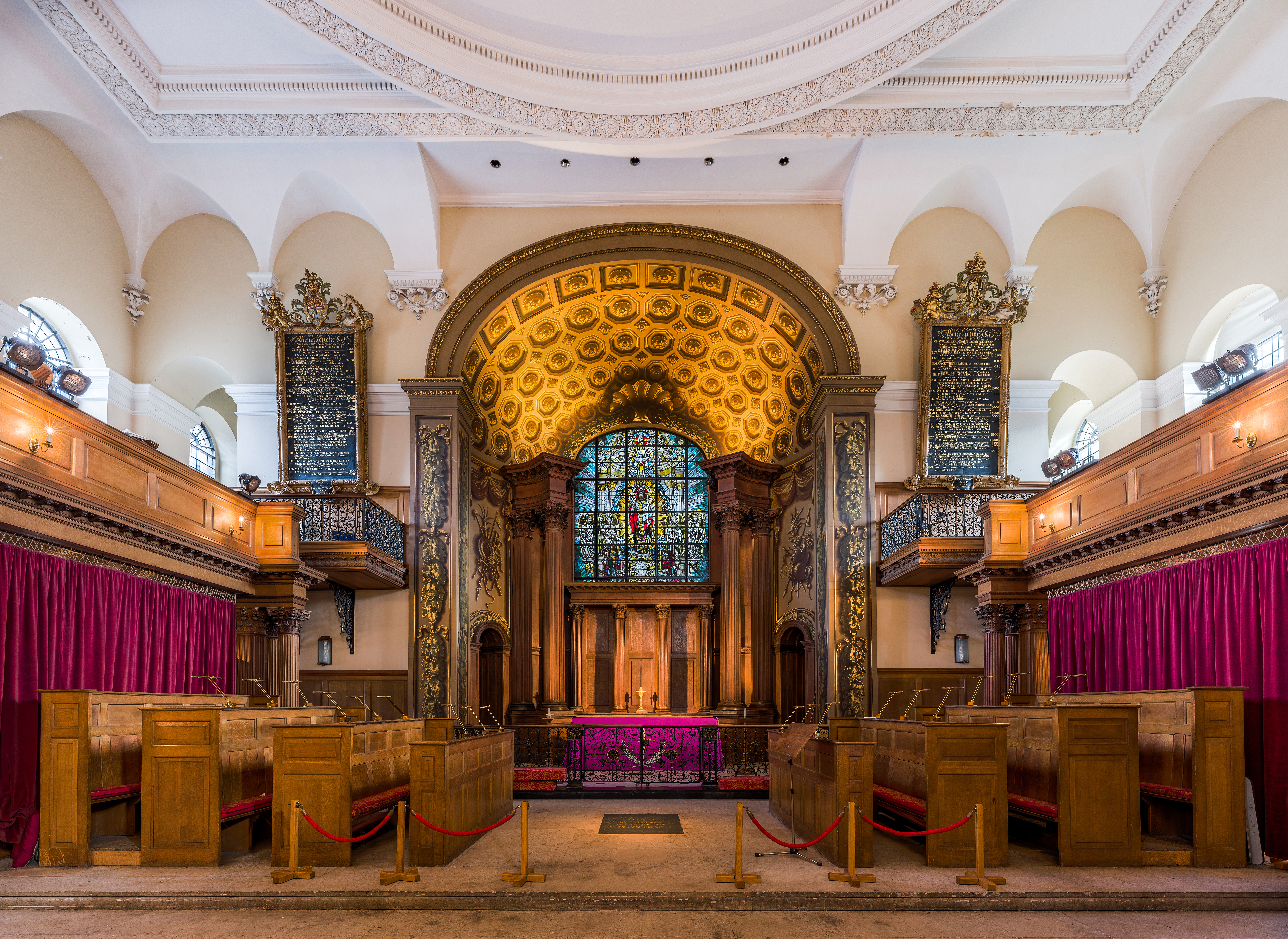 The interior of St Alfege Church in Greenwich, London, England.